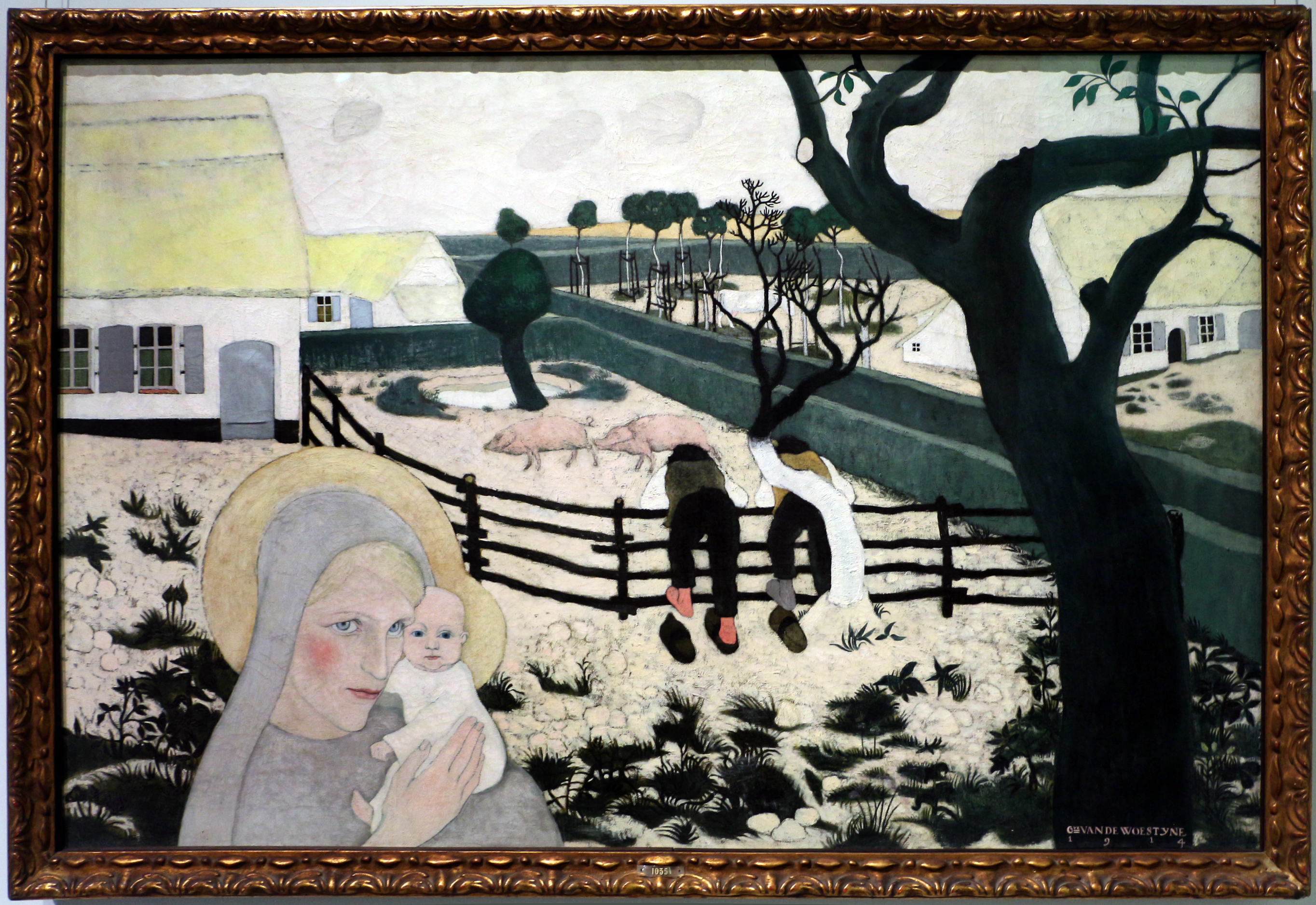 Paintings in the Fin de Siècle Museum